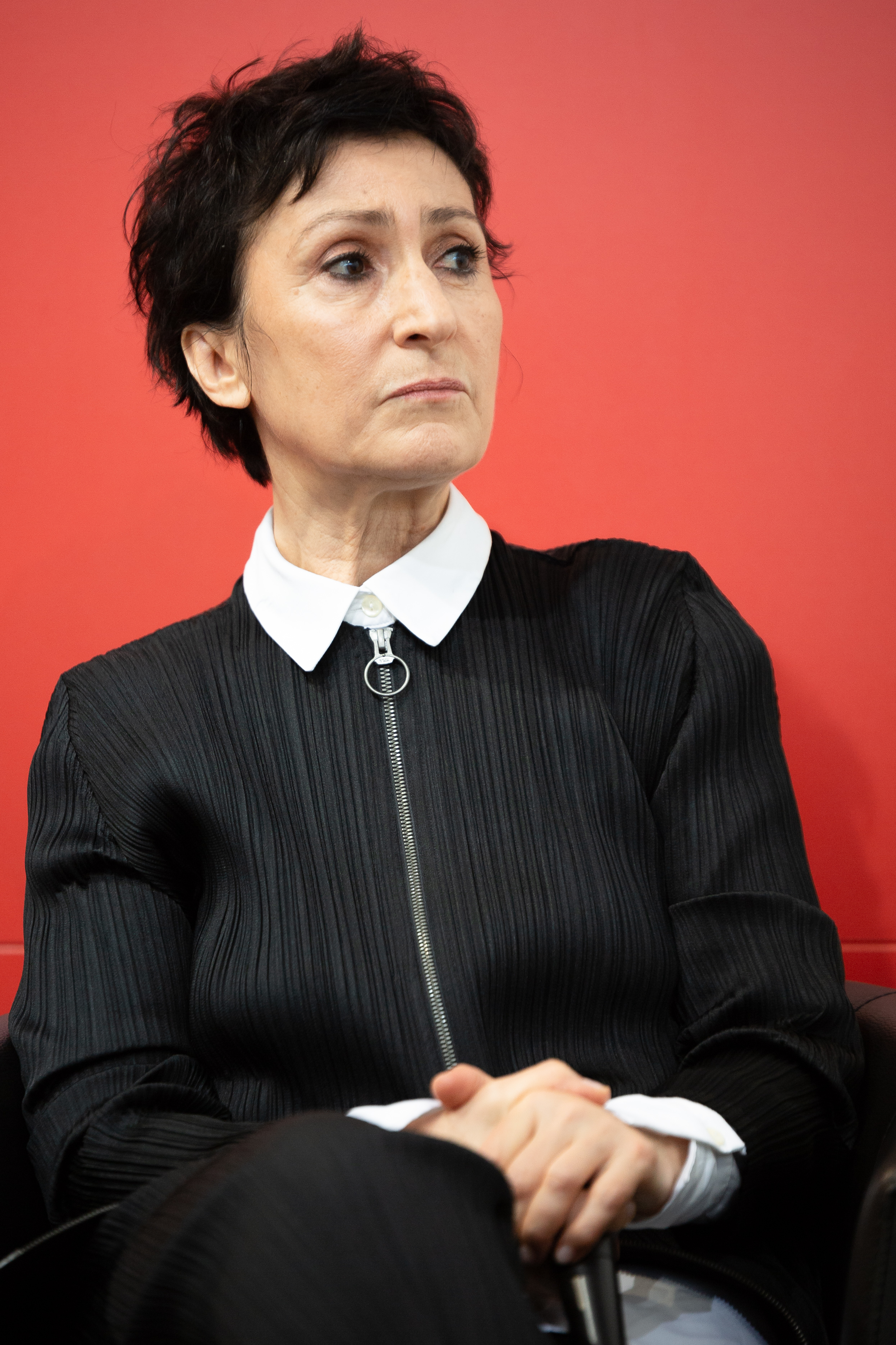 Renan Demirkan in a discussion with Michel Friedman and the presenter Birgit Güll on the Vorwärts stand at the Frankfurt Book Fair 2018